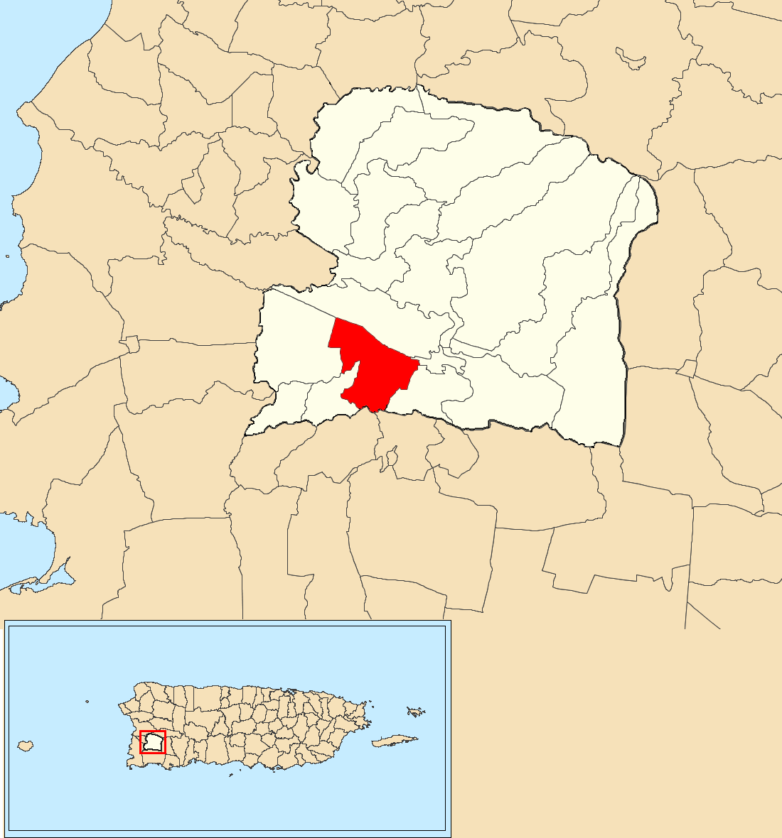 Maresúa, San Germán, Puerto Rico locator map